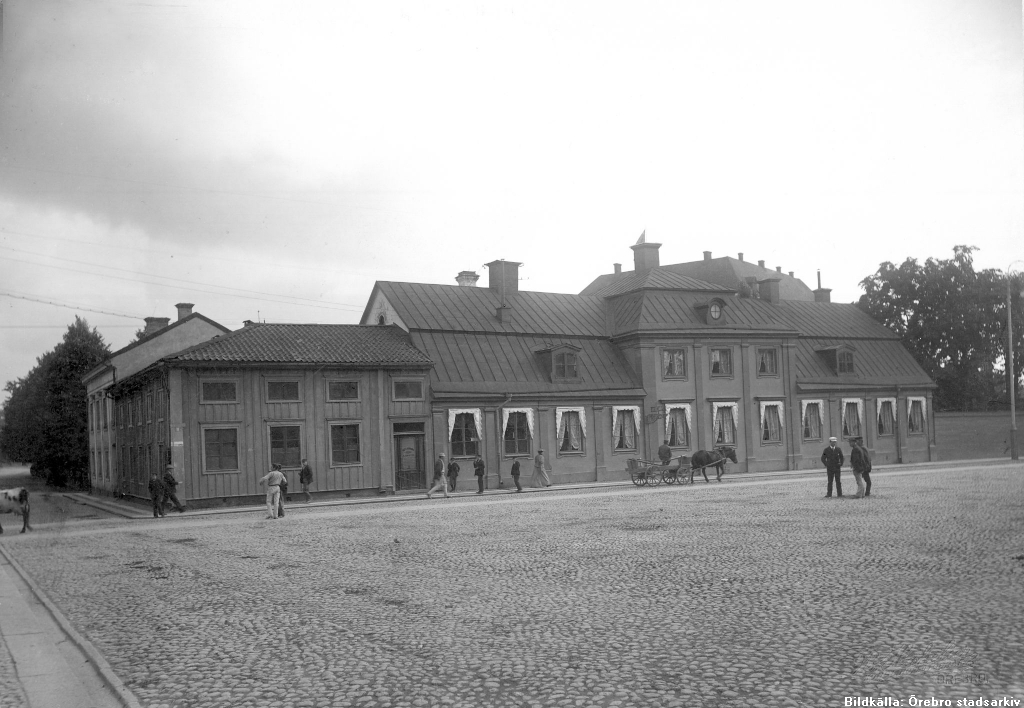 Åkerhielm's house at Järntorget, Örebro, Sweden